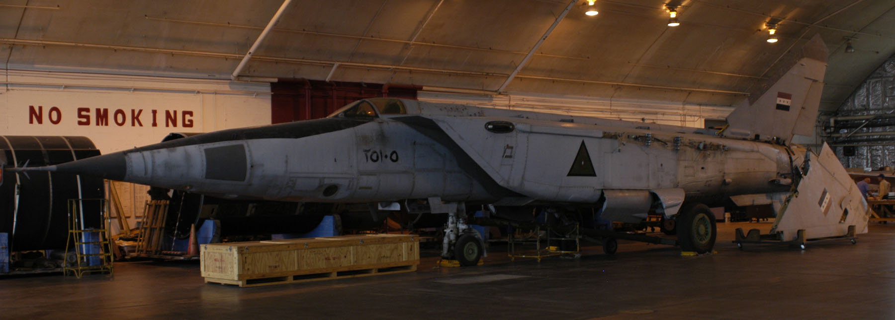 DAYTON, Ohio (10/2007) -- MiG-25 in the restoration area at the National Museum of the U.S. Air Force. (U.S. Air Force photo)